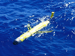 Rutgers Slocum glider RU02 flying a mission in the Sargasso Sea in 2005.